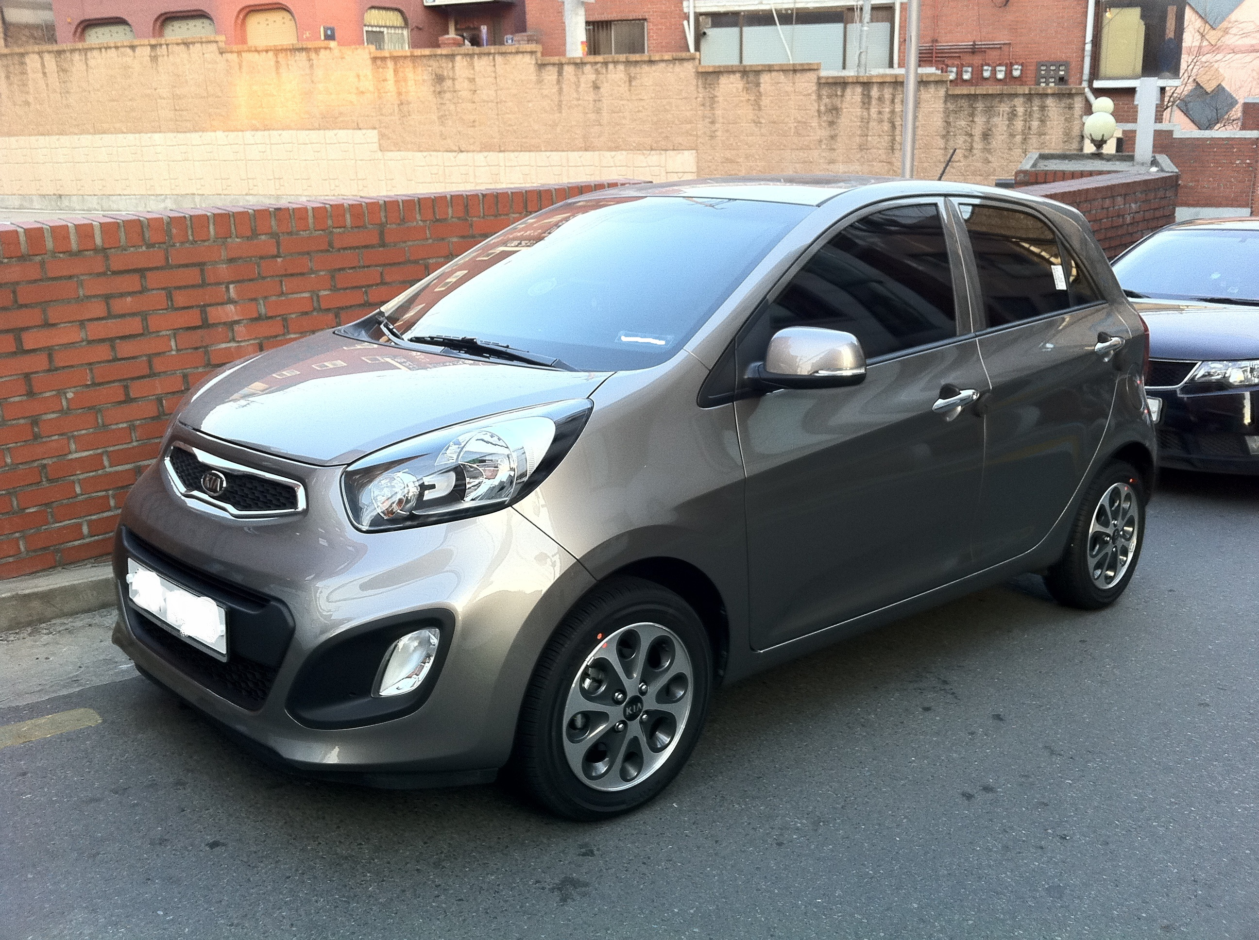 Side view of the 2nd generation Kia Morning/Picanto parked in Seoul, Korea. License plate smudged for privacy.